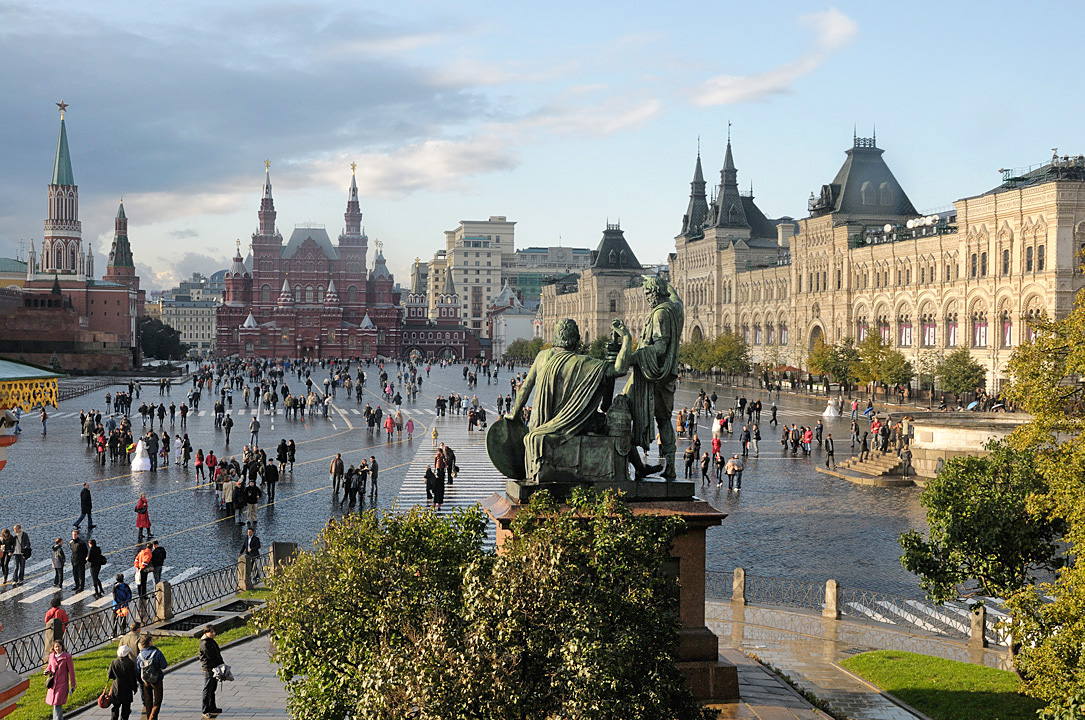 Red Square in Moscow, from the Saint Basil's Cathedral.